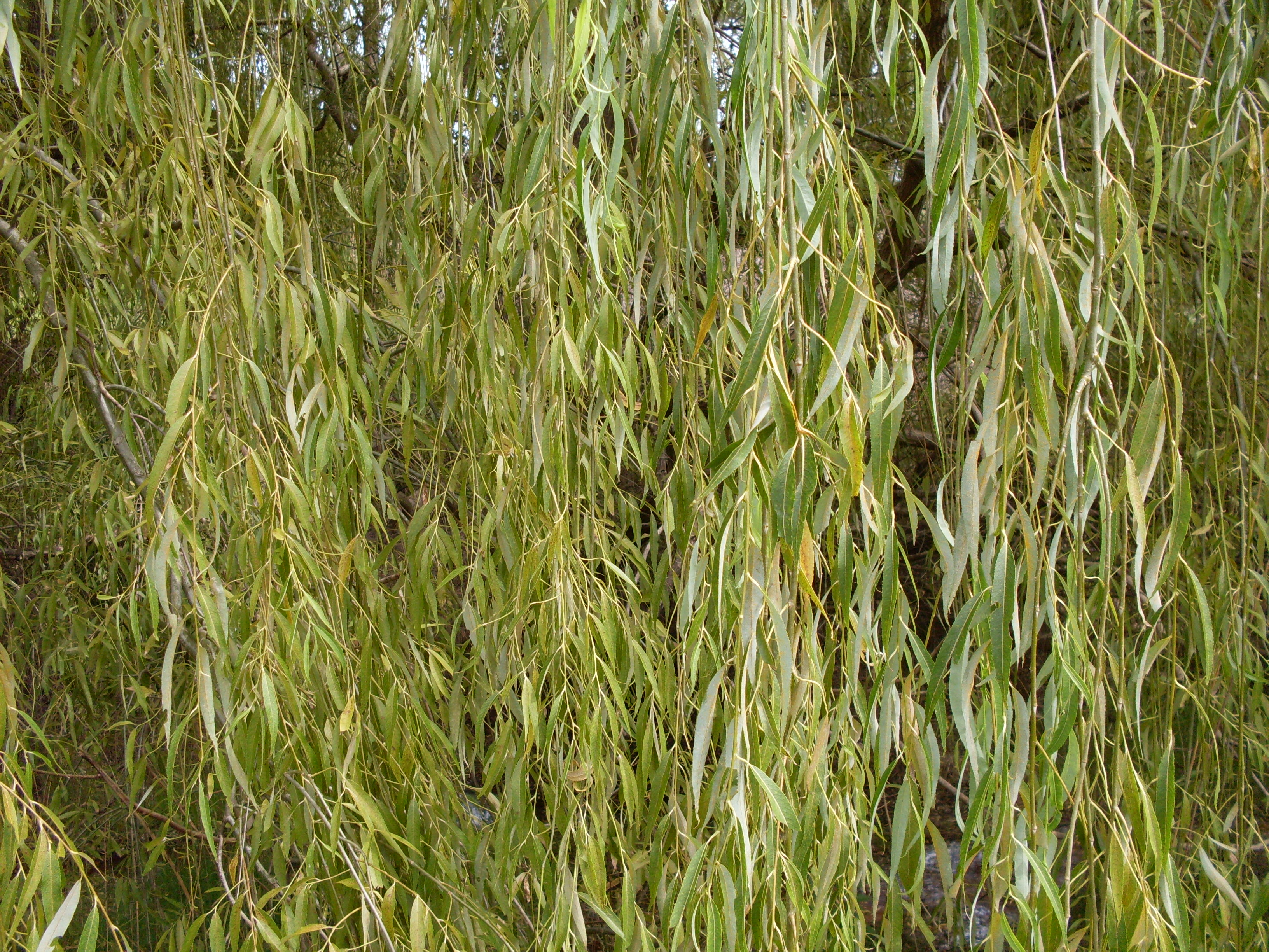 Weeping Willows, Salix babylonica, used for erosion control, are an environmental weed of rivers in Australia. Mudgee, NSW Australia, January 2009.